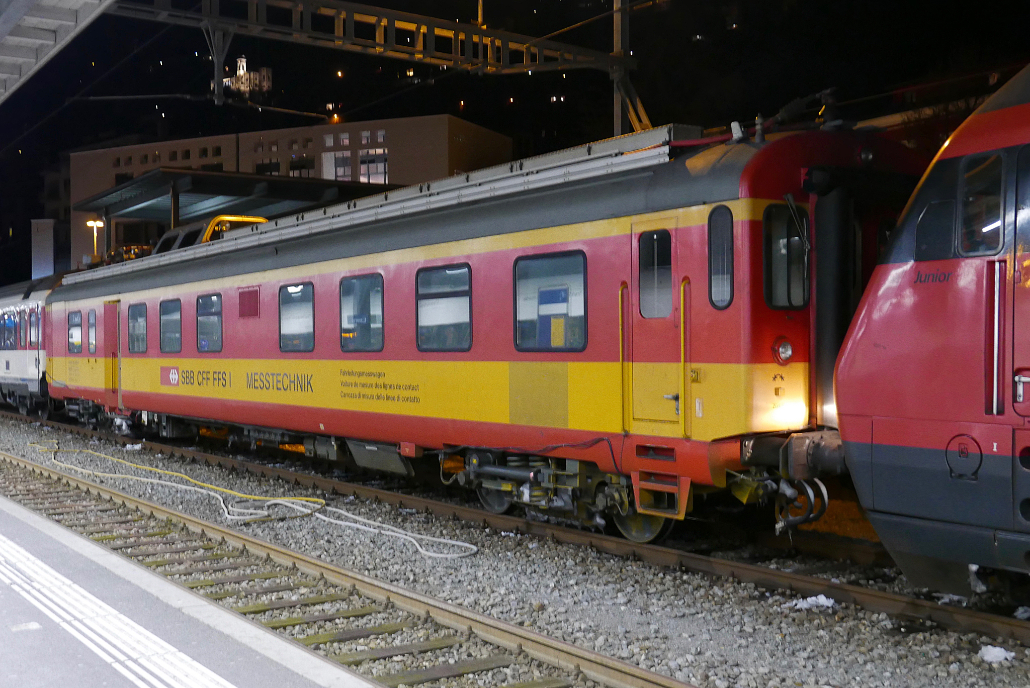 SBB CFF FFS X 60 85 99-90 106-3 at Locarno railway station.